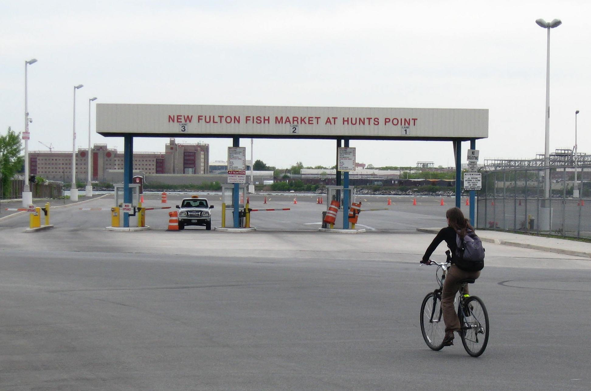 Looking south at Fulton Fish Market at Hunts Point on a cloudy May afternoon.